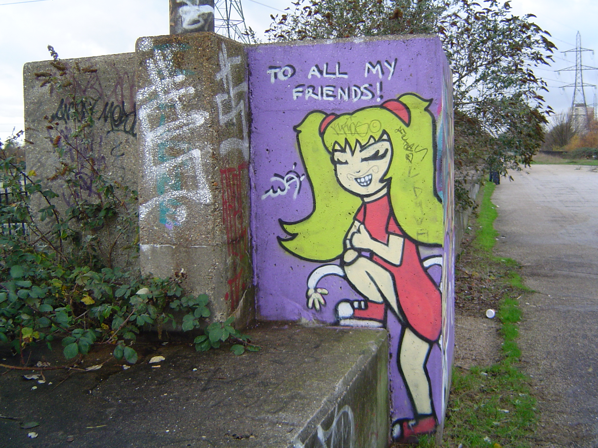 "To All My Friends" cartoon (graffiti) on "The Greenway" an urban footpath in the East End of London, UK. Artwork by unknown artist or artists.